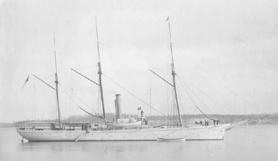 The United States Revenue Cutter Grant, undated photograph.